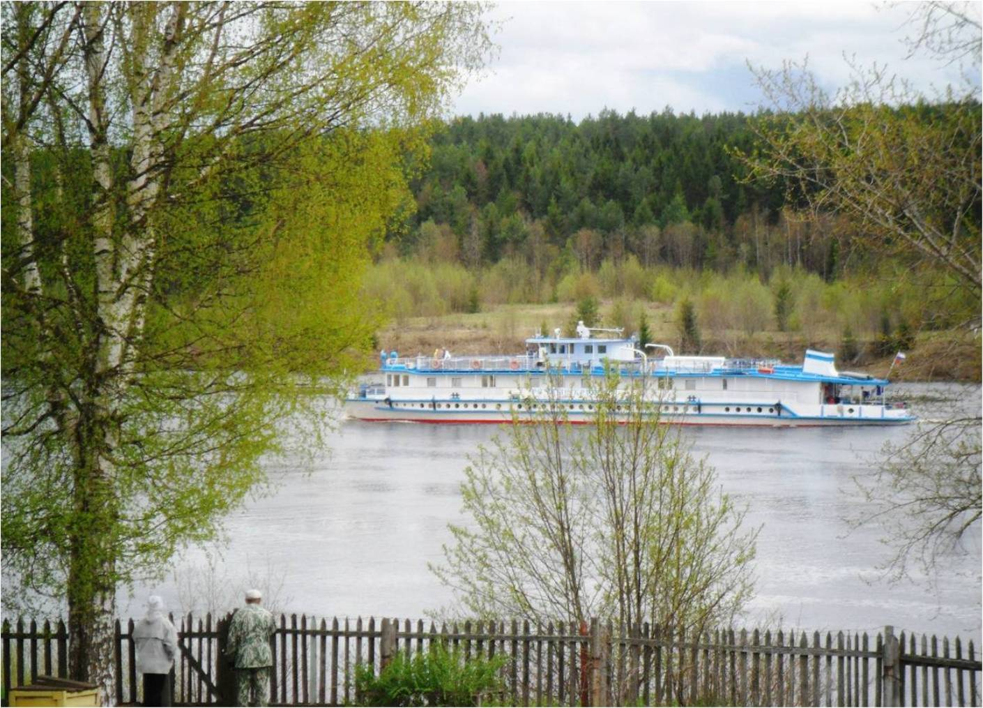 The tourist motor ship "Nikolai Yakovlev" (voyage Vologda-Syktyvkar) on the Sukhona river after a stop in Totma